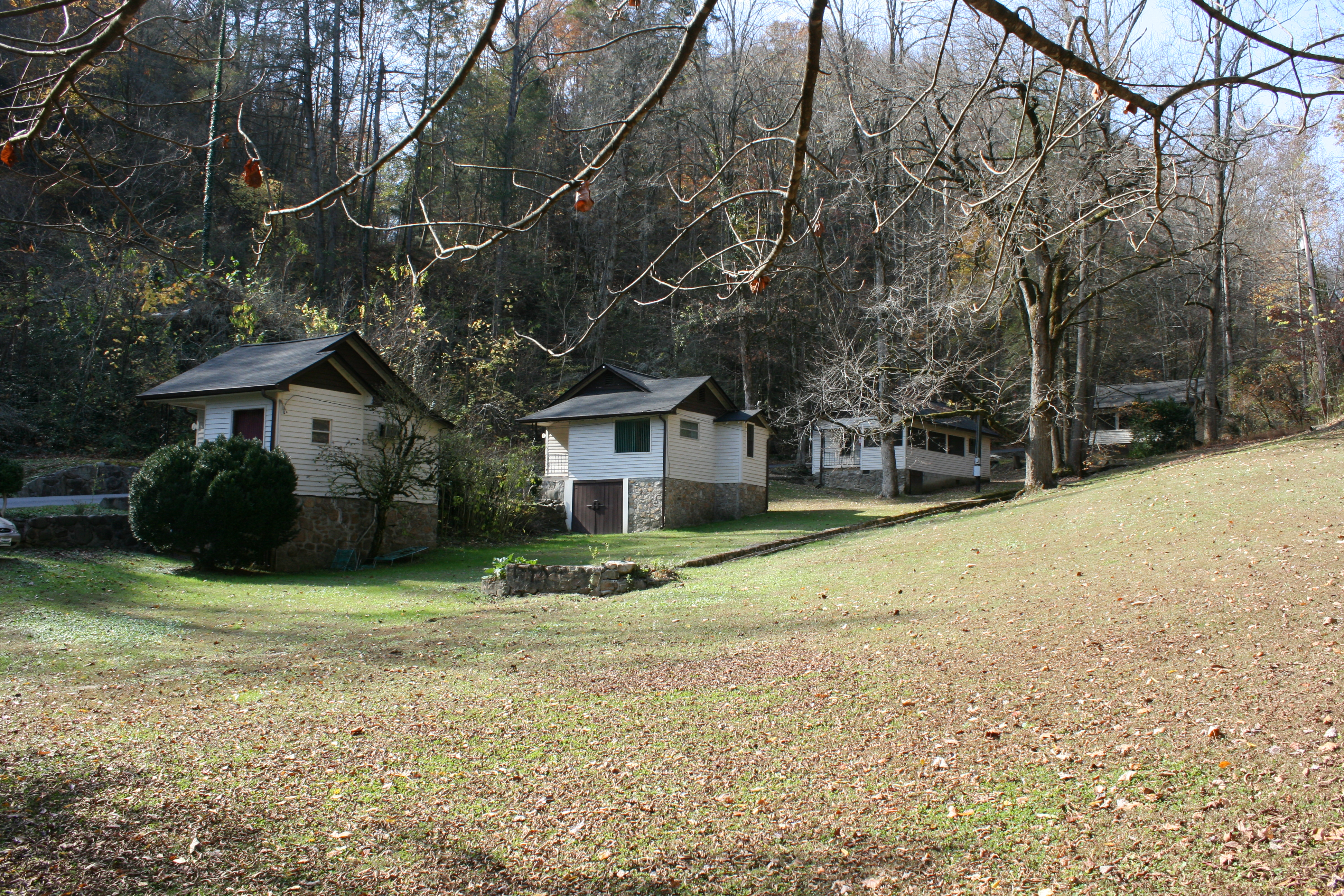 The four remaining cottages of Flat Branch Cottages on the Perry's Camp site.